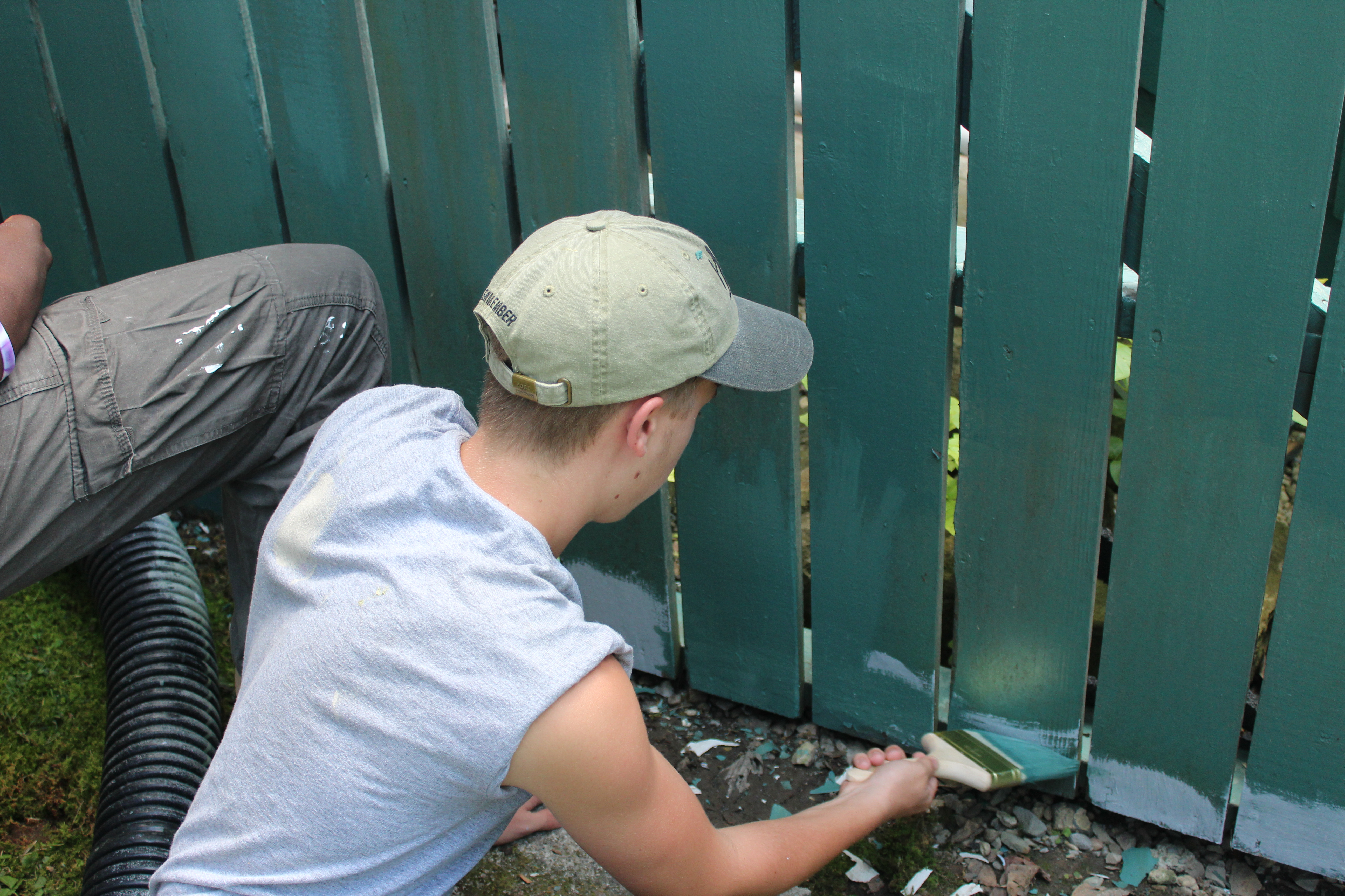 Men painting a fence green